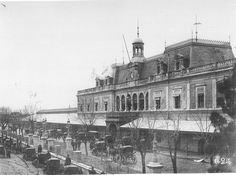 Ferrocarril Santa Fe's Central Station (popularly known as La Francesa). Built in 1885, it was the railway terminus station of the city of Santa Fe in Argentina. The building would be demolished in 1962 and replaced by a bus terminus.